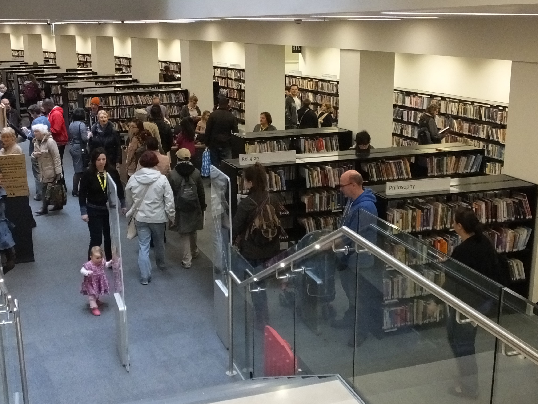 Manchester Central Library re-opened after refurbishment 22 March 2014. Lending Library